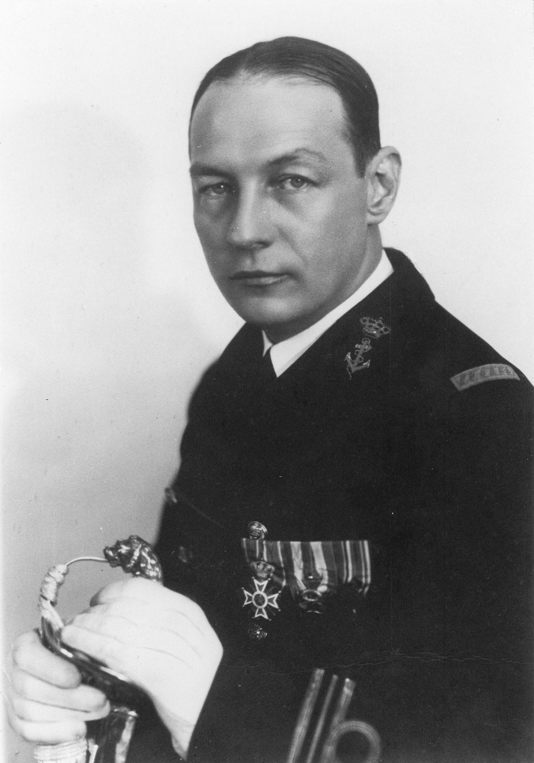 Karel Doorman (1889-1942) as a lieutenant-commander.